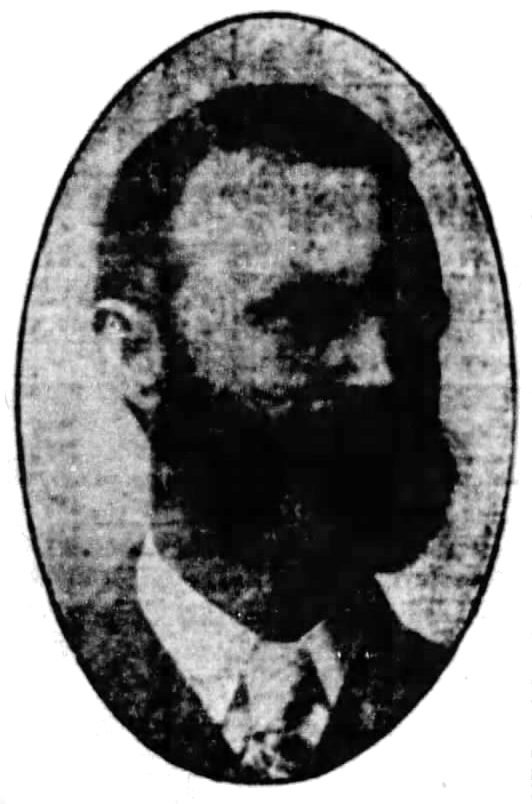 James Stephen (1838-1958), Seattle, Washintgon area architect